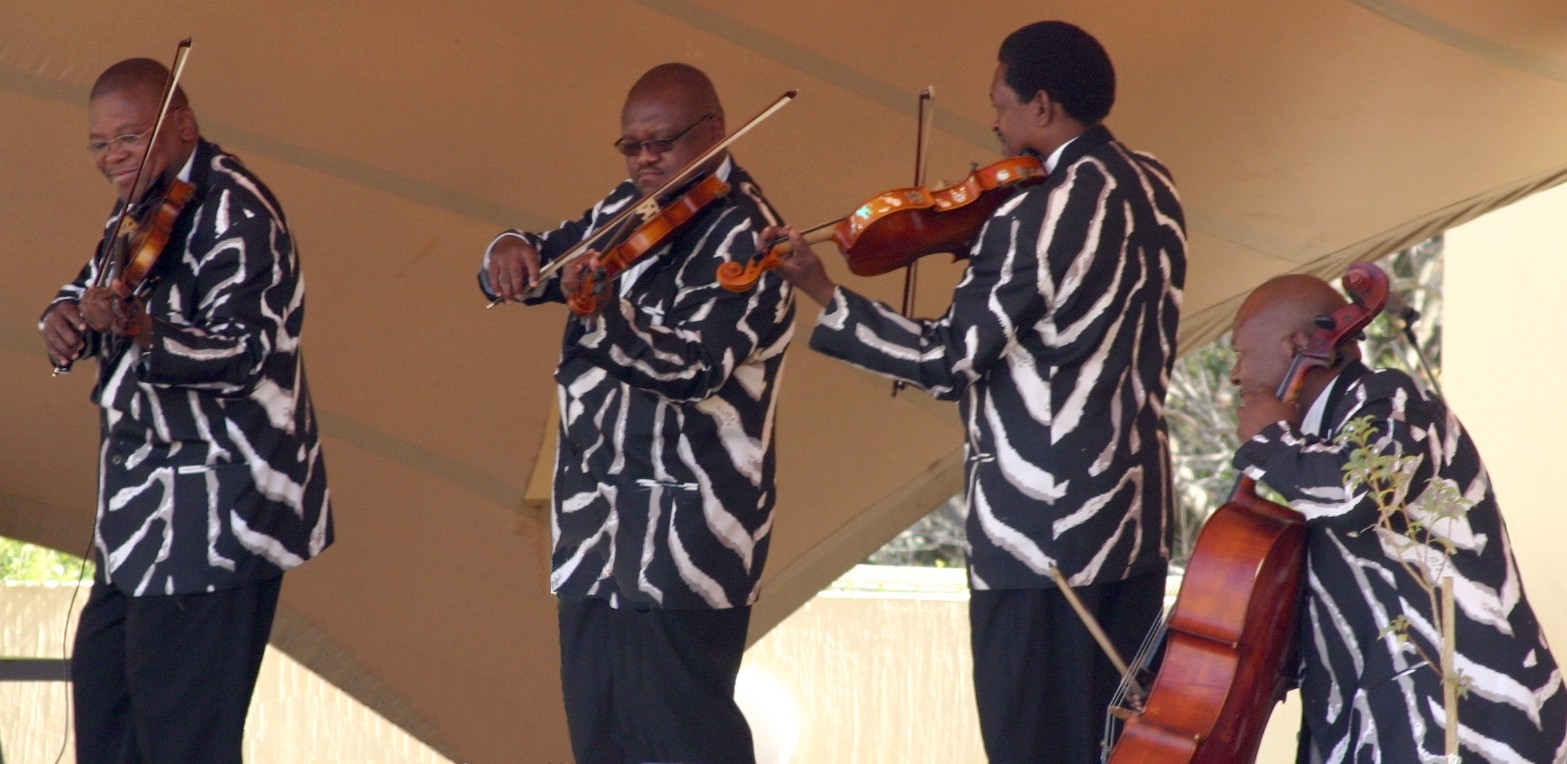 Soweto String Quartet - Ruimsig Botanical Garden, Johannesburg